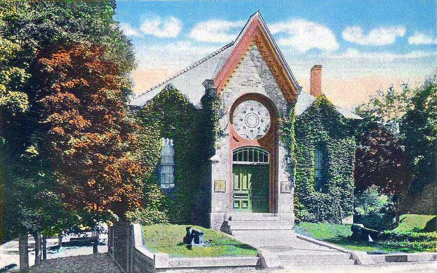 Memorial Hall, Oakland, Maine. Designed by architect Thomas W. Silloway, it was built in 1870. Added to the National Register of Historic Places in 1977.